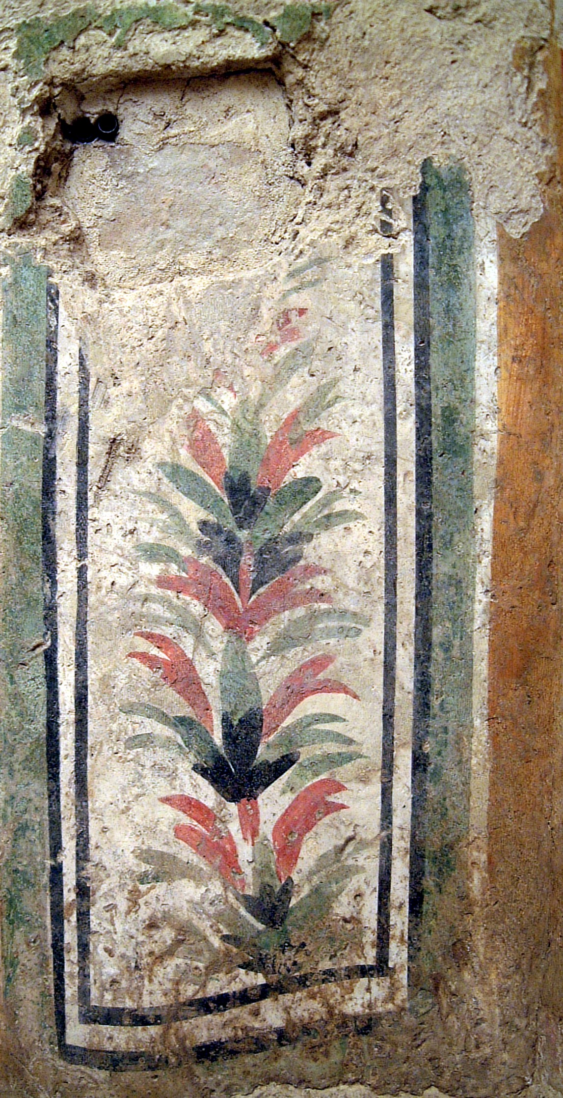 Életfa ábrázolás a sopianaei Ókeresztény Mauzóleum sírkamrájának északi falán